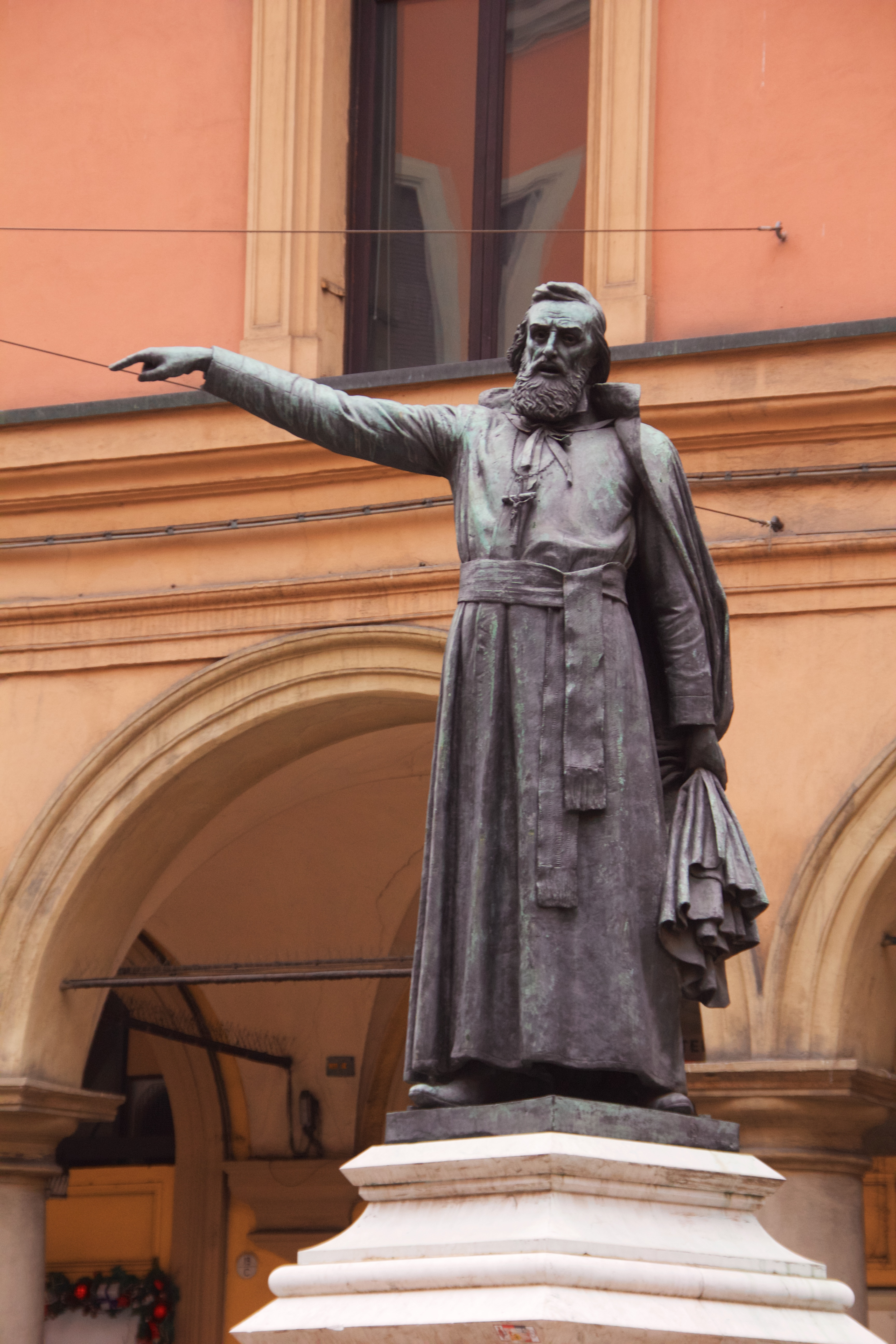 Ugo Bassi statue, Bologna, Italy